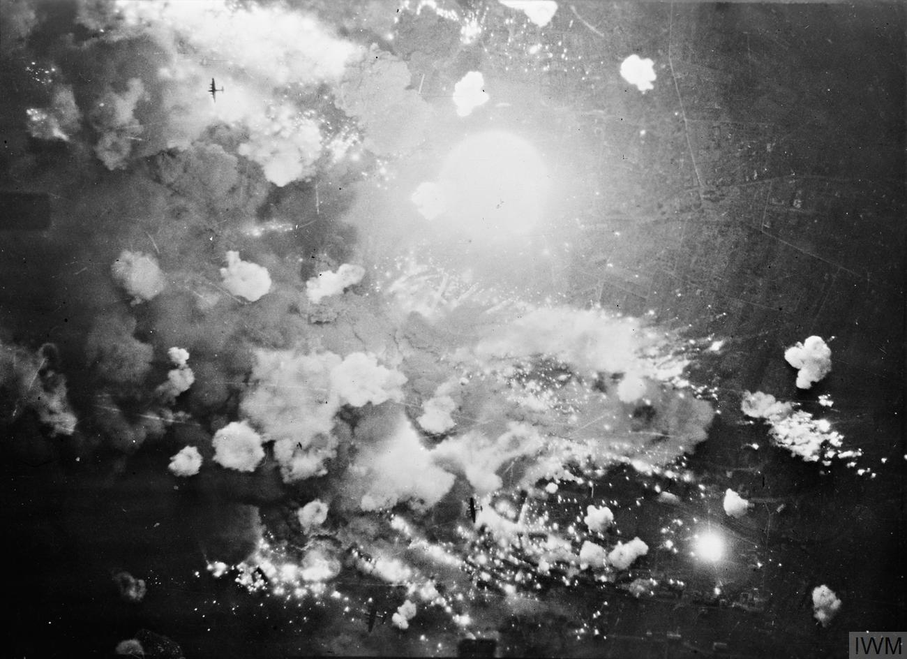 Royal Air Force Bomber Command, 1942-1945. Vertical aerial photograph taken over Pforzheim, Germany, during the first and only area-bombing raid on the city. High explosive and incendiary bombs explode in the target area at the height of the attack. Three Avro Lancasters can be made out; one at upper left and two more at bottom centre, as they overfly the target.